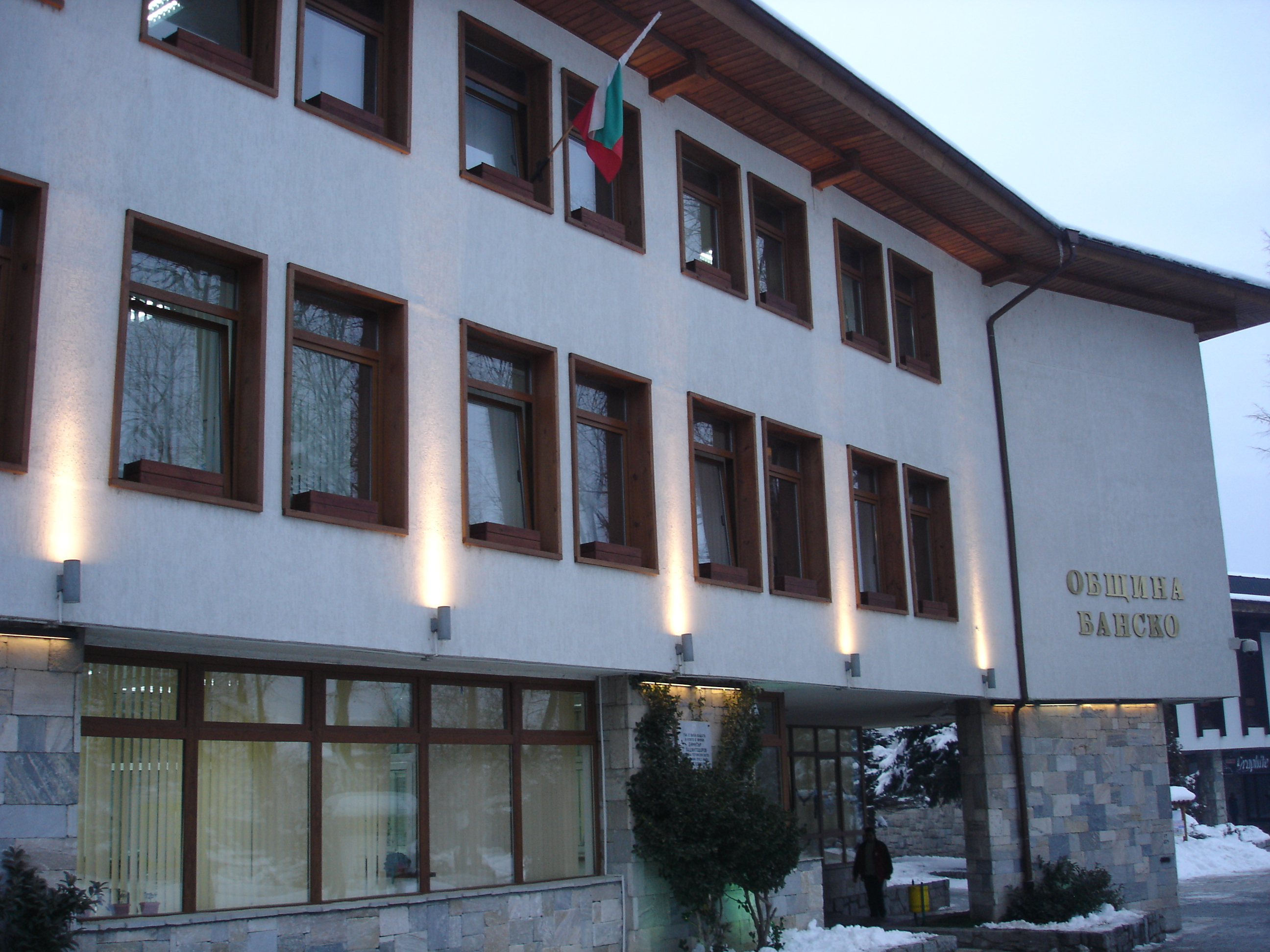 Municipality of Bansko, Bulgaria